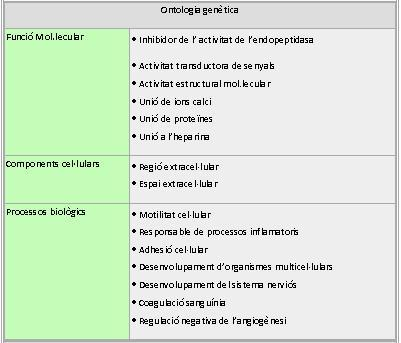 Results RNA